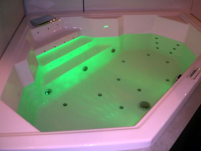 Whirlpool bath tub with air jets, hydro jets, color light, buttom suction